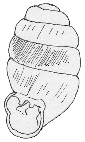 Vertigo angustior - Pulmonate landsnail shell; Holocene deposits outcrop Eben Emael, Jekerdal, Belgium